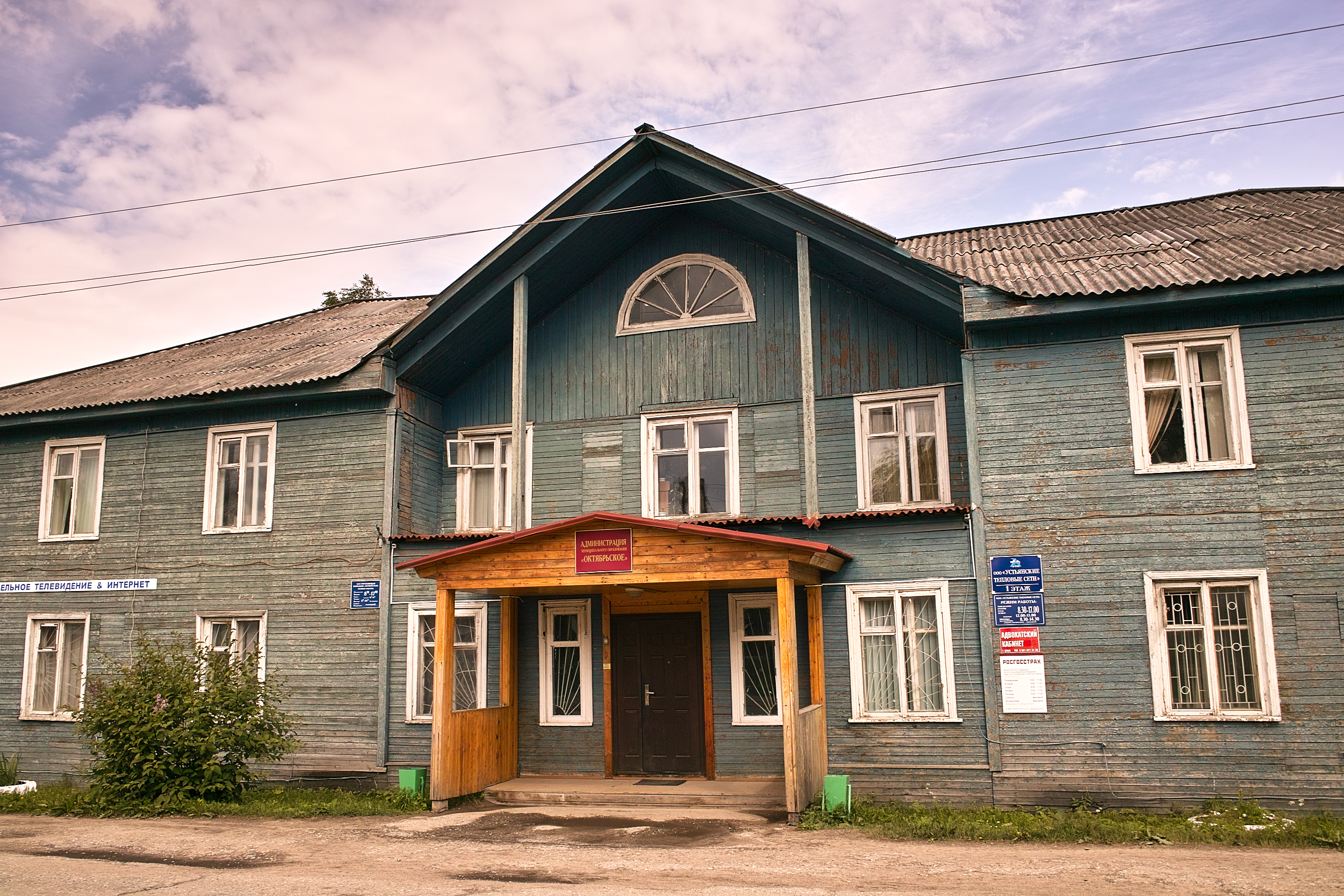 Administration building of Oktyabrsky in the Ustya raion (Arkhangelskaya oblast), Russia